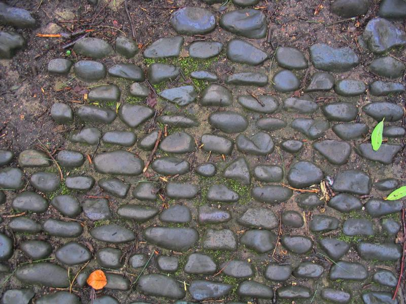 Small cobbles